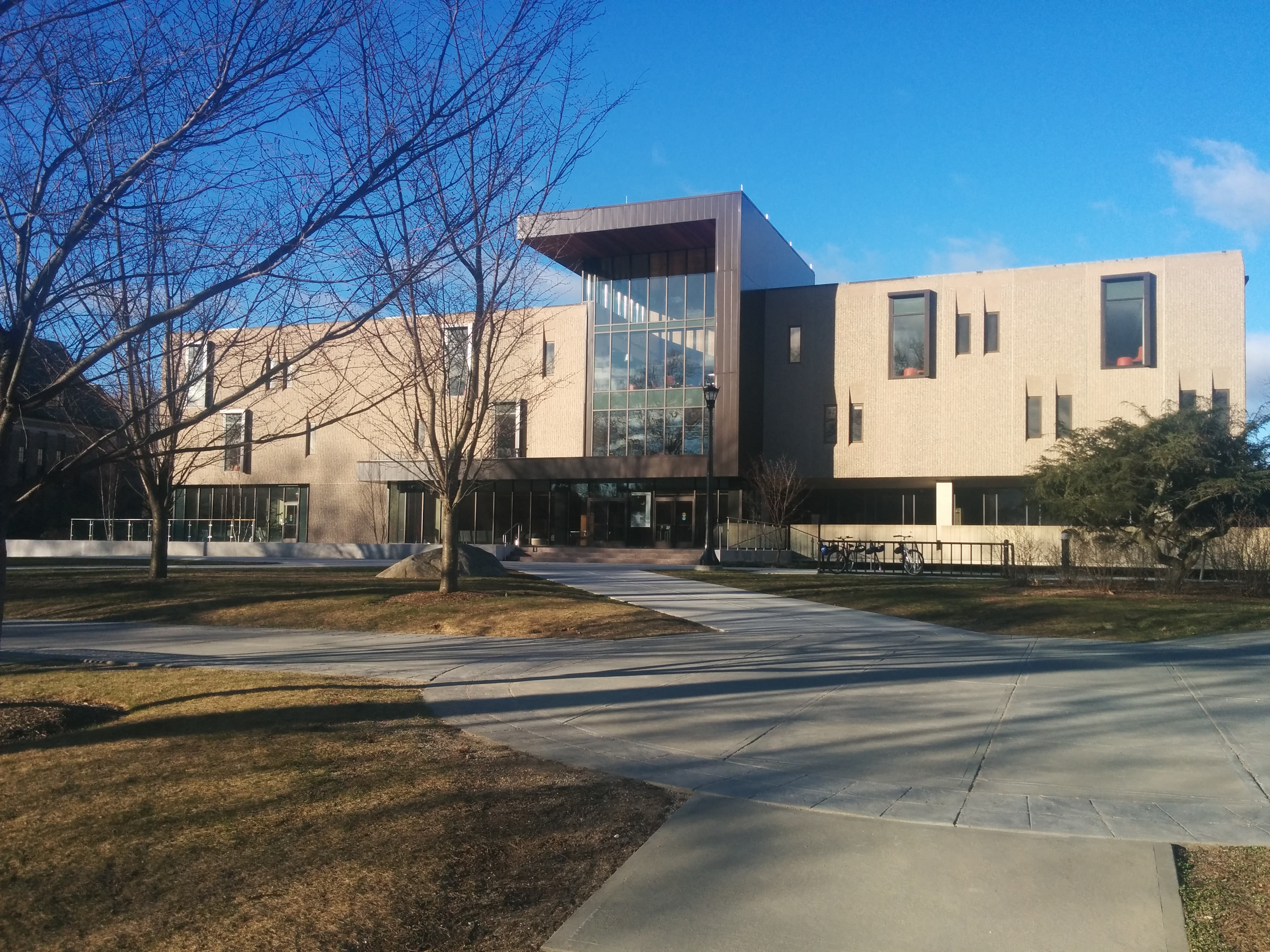 Charles E. Shain Library, Connecticut College, after 2014-2015 renovation and expansion